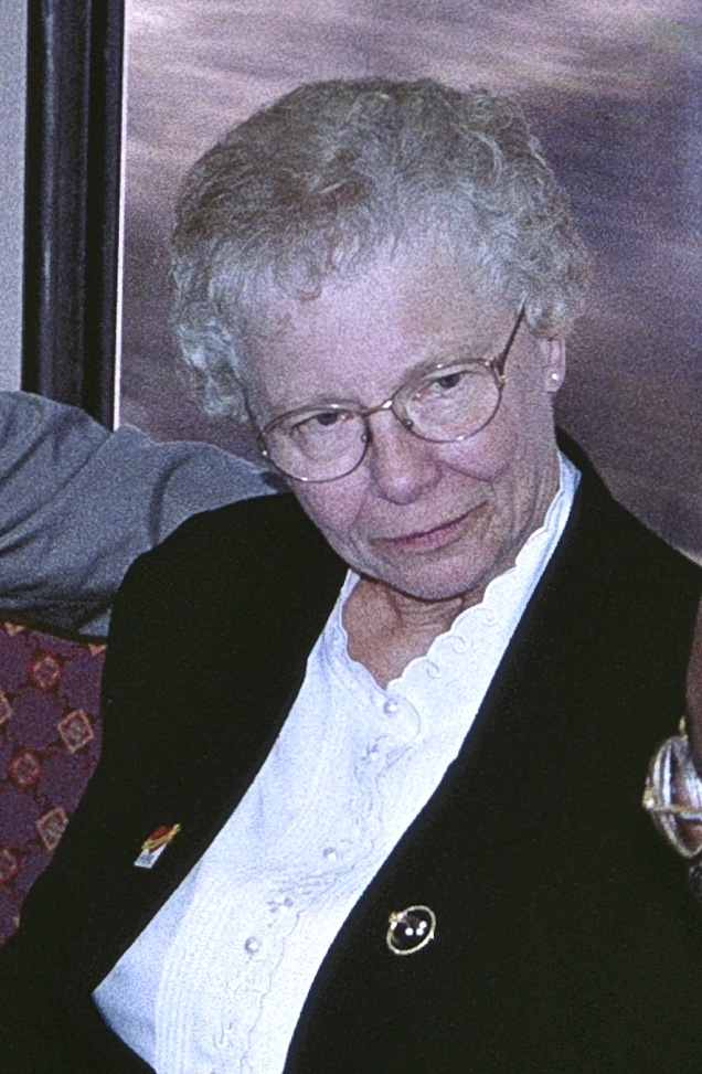 Shirley Huffman, former mayor of Hillsboro, Oregon, aboard a MAX train carrying dignitaries and the media to the opening ceremonies, in Hillsboro, for TriMet's Westside Light Rail line (now part of the Blue Line), in 1998. At that time, she was a member of TriMet's board of directors.